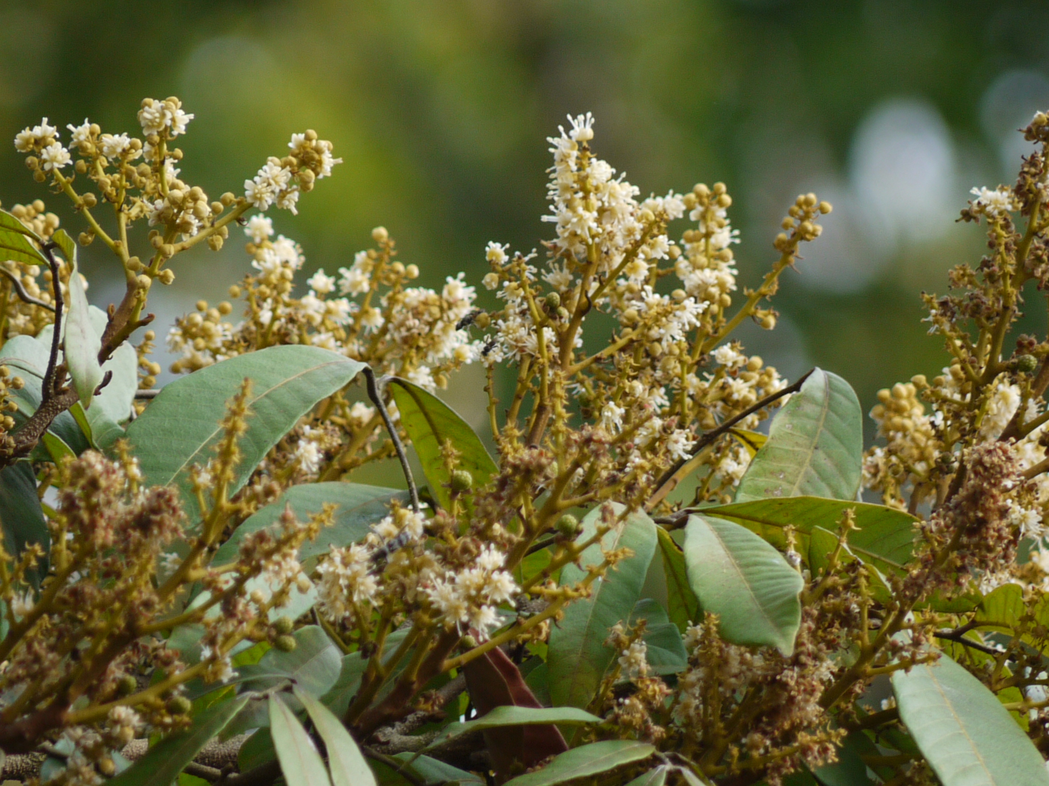 Sapindaceae (soapberry family) » Dimocarpus longan Lour. dy-mo-KAR-pus -- from the Greek dis (twice) and karpos (fruit) LONG-an -- from a Chinese name for the species, long yan (龙眼 : dragon eyes) commonly known as: dragon's eyes, eyeball tree, longan • Assamese: আচফল asphol, নাগা লীচী nagalichi • Bengali: আঁশফল ashphol • Garo: samphal bol • Khasi: dieng loba • Konkani: वुंब wumb • Malayalam: പെമ്പുന്ന pempunna,പെമ്പൂവം pempuuvam, പൊരിപുന്ന poripunna • Manipuri: nongganghei • Marathi: ओंब omb, उंब umb • Mizo: thei-fei-mûng • Tamil: செம்பூவம் cem-puvam, காட்டுப்பூவம் kattu-p-puvam, பிரப்பன் pirappan, பூவம் puvam Native of: s China, India, Sri Lanka, Indo-China, Malesia; cultivated elsewhere References: eFlora • Wikipedia • NPGS / GRIN • ENVIS - FRLHT